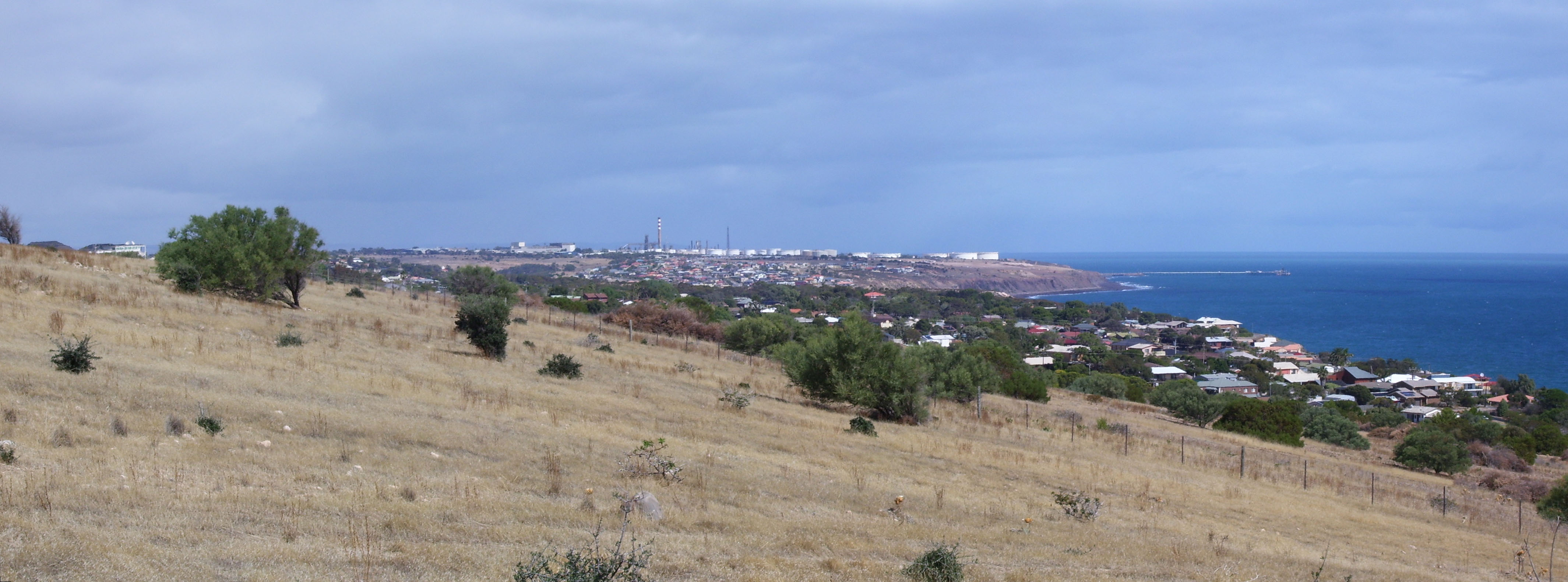 Marino Conservation Park panorama.